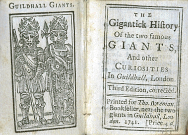 frontispiece and title page for The Gigantic History of the Two Famous Giants and Other Curiosities, Thomas Boreman, London, ca 1730-1750